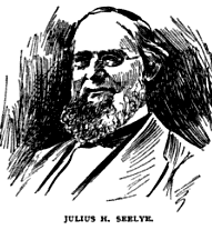 The Chautauquan, Volume 21 1895 p. 479.